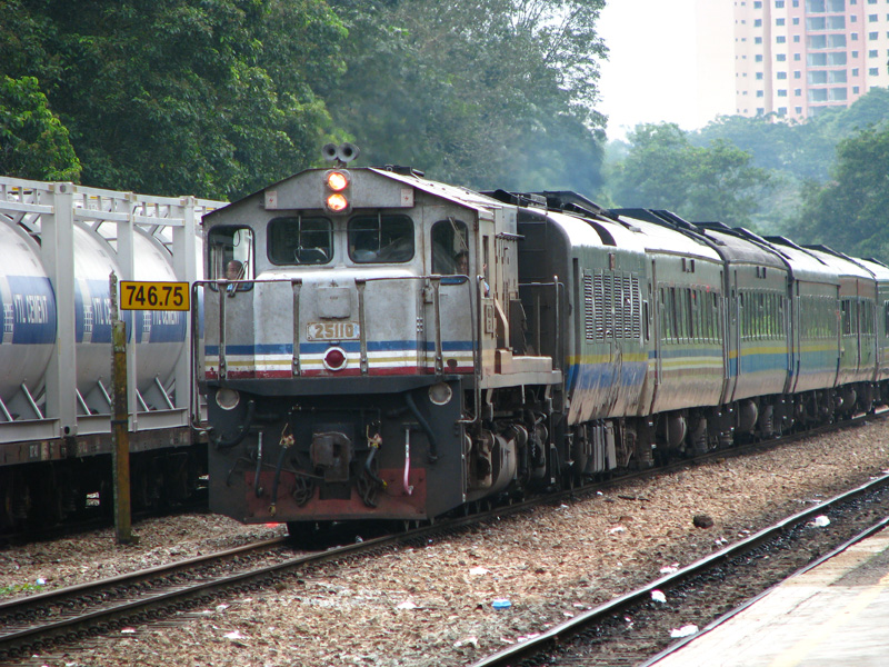 A KTM Intercity train from Singapore to Gua Musang, making a stop at the loop line of Kempas Bahru railway station, in Johor, Malaysia.